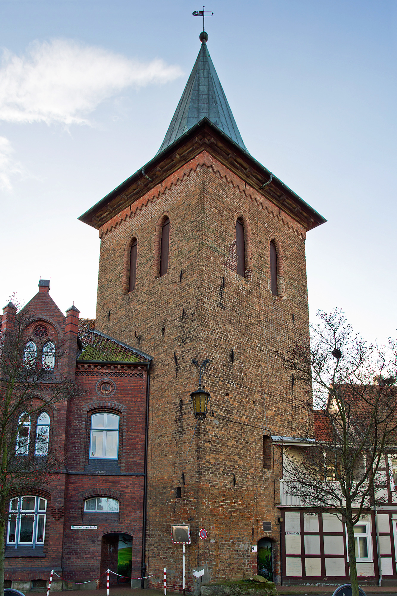 Tower "Glockenturm" in the small town Lüchow (district Lüchow-Dannenberg, northern Germany).